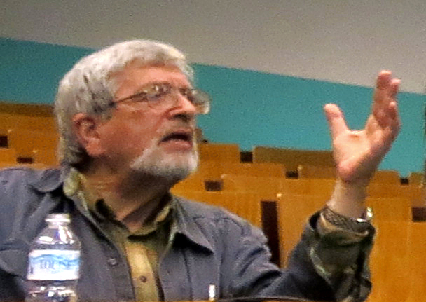 Musicologist Richard Taruskin at symposium in Leuven, 2014